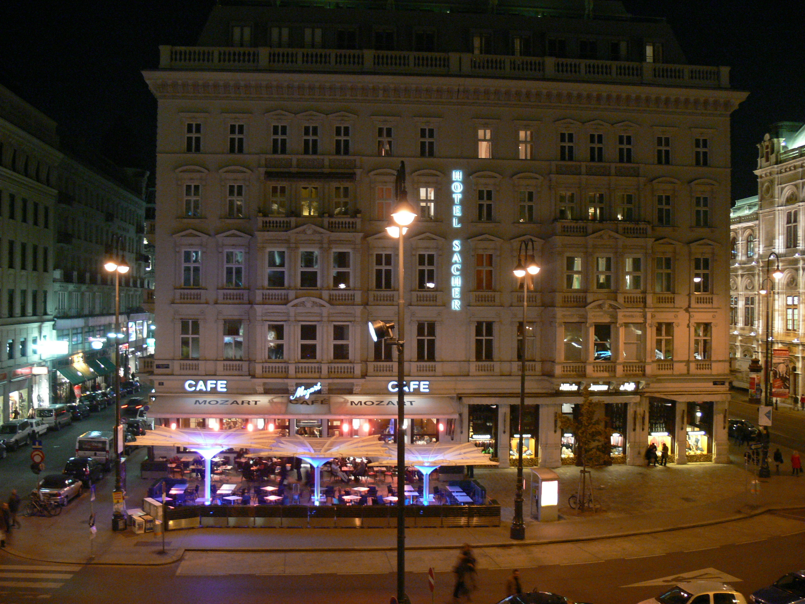 Vienna. Cafe´ Mozart by night.